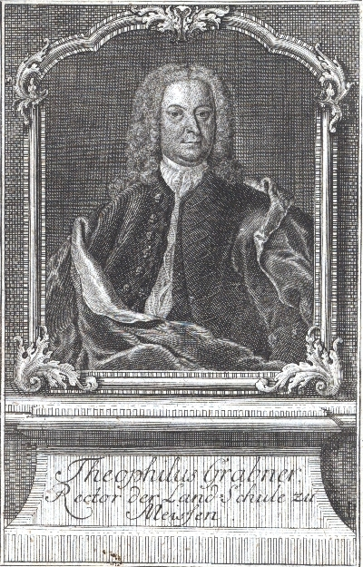 Theophilus Grabener (1685-1750), a German pedagogue